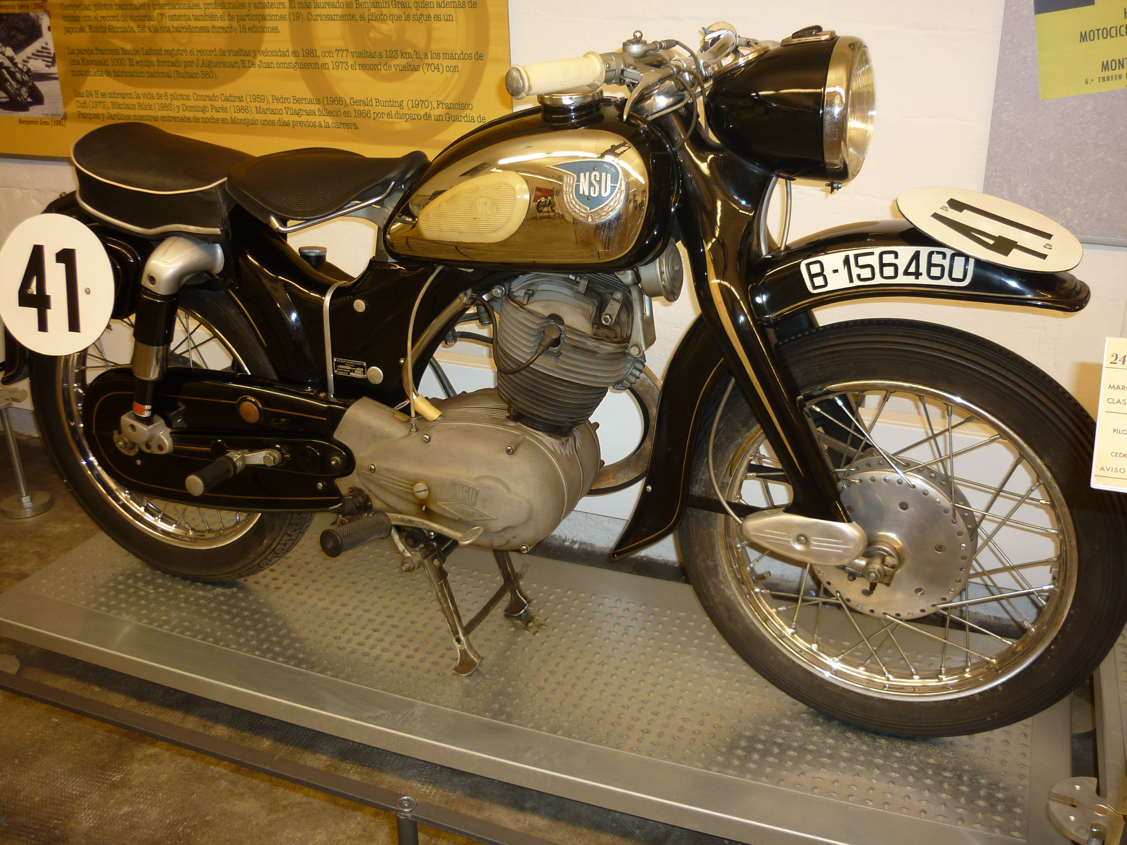 Lube-NSU Max 250cc. This bike was ridden by Jaume Borrull and Ramon Magriñà at III 24 Hours of Montjuïc, on 1957